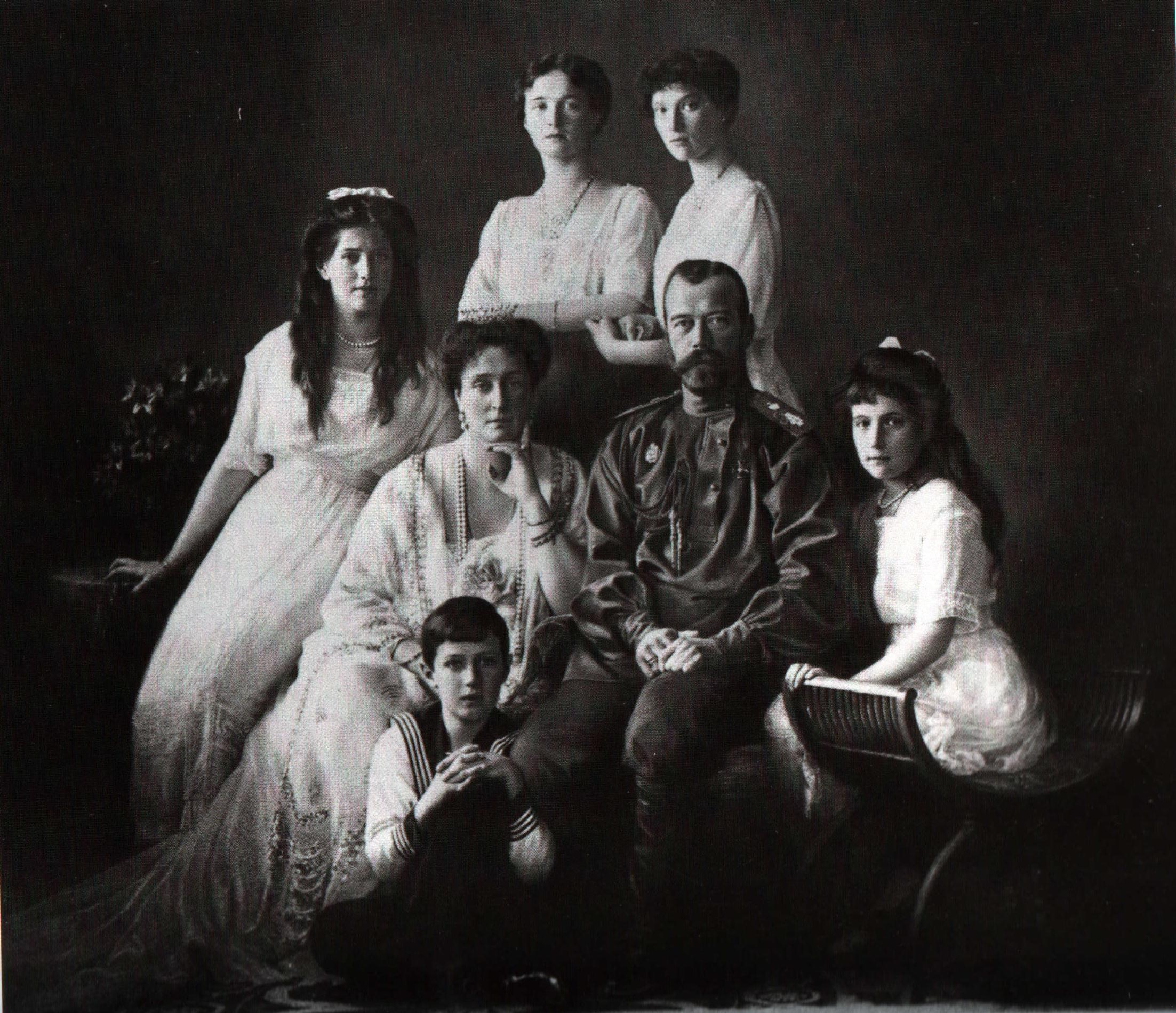 The Romanov Imperial family